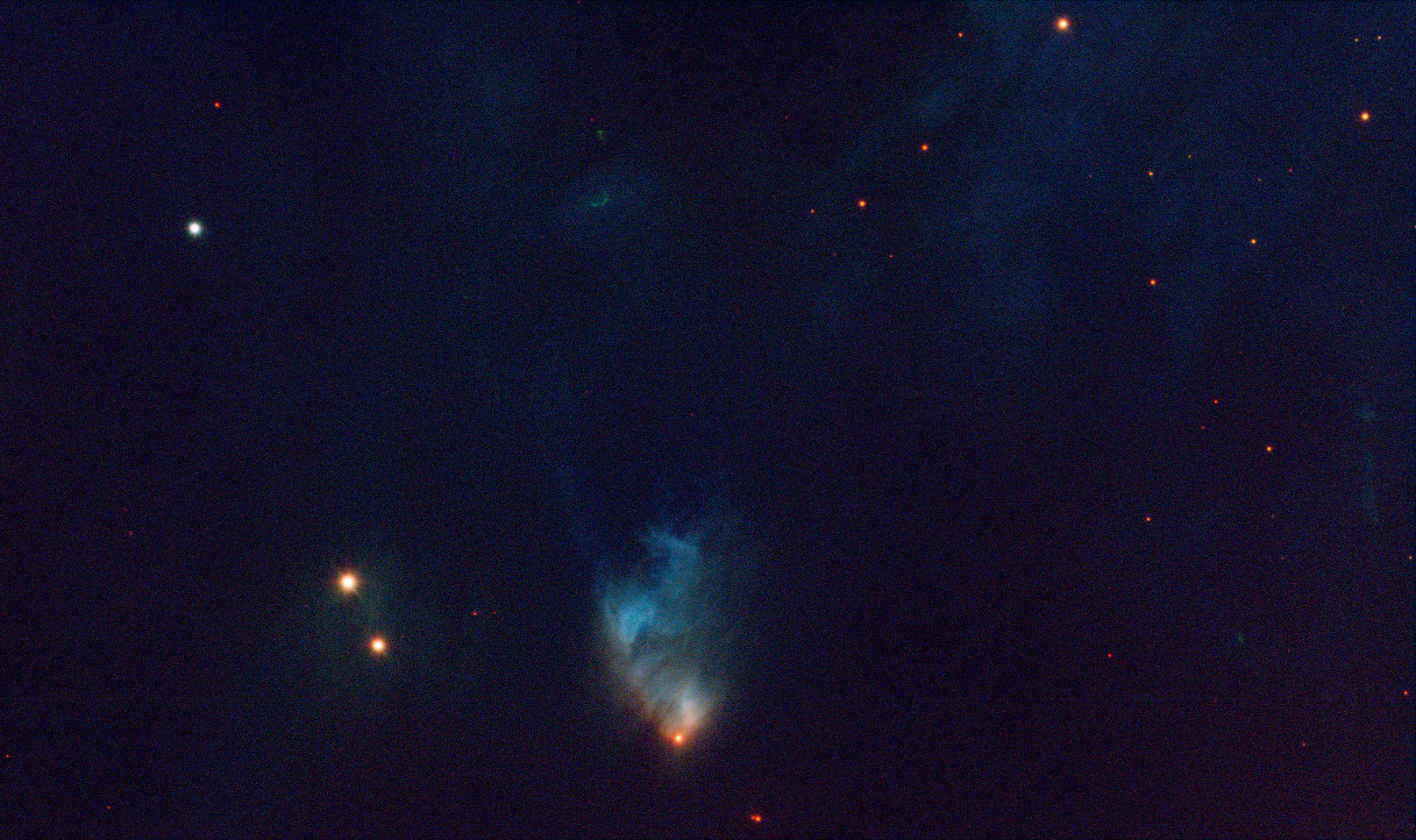 McNeil's Nebula, discovered by amateur astronomy Jay McNeil on 23 January 2004, is a reflection nebula surrounding a newborn star.